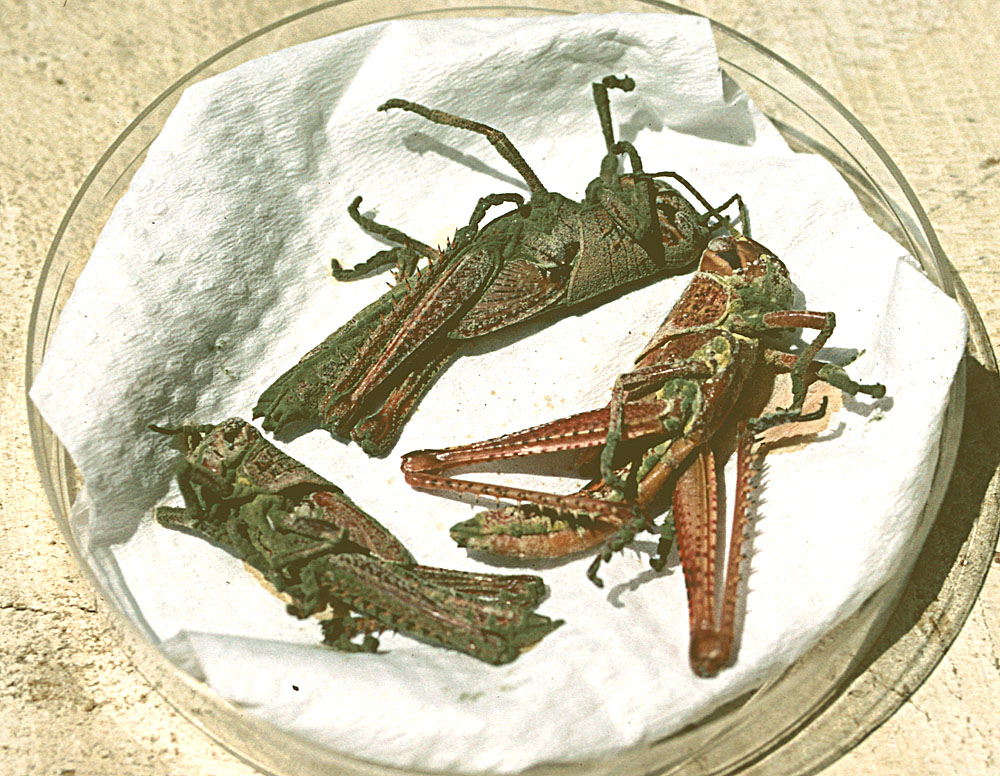 Red locusts killed by Metarhizium acridum during a biological control campaign in Tanzania in February 2003 (photo by Christiaan Kooyman).